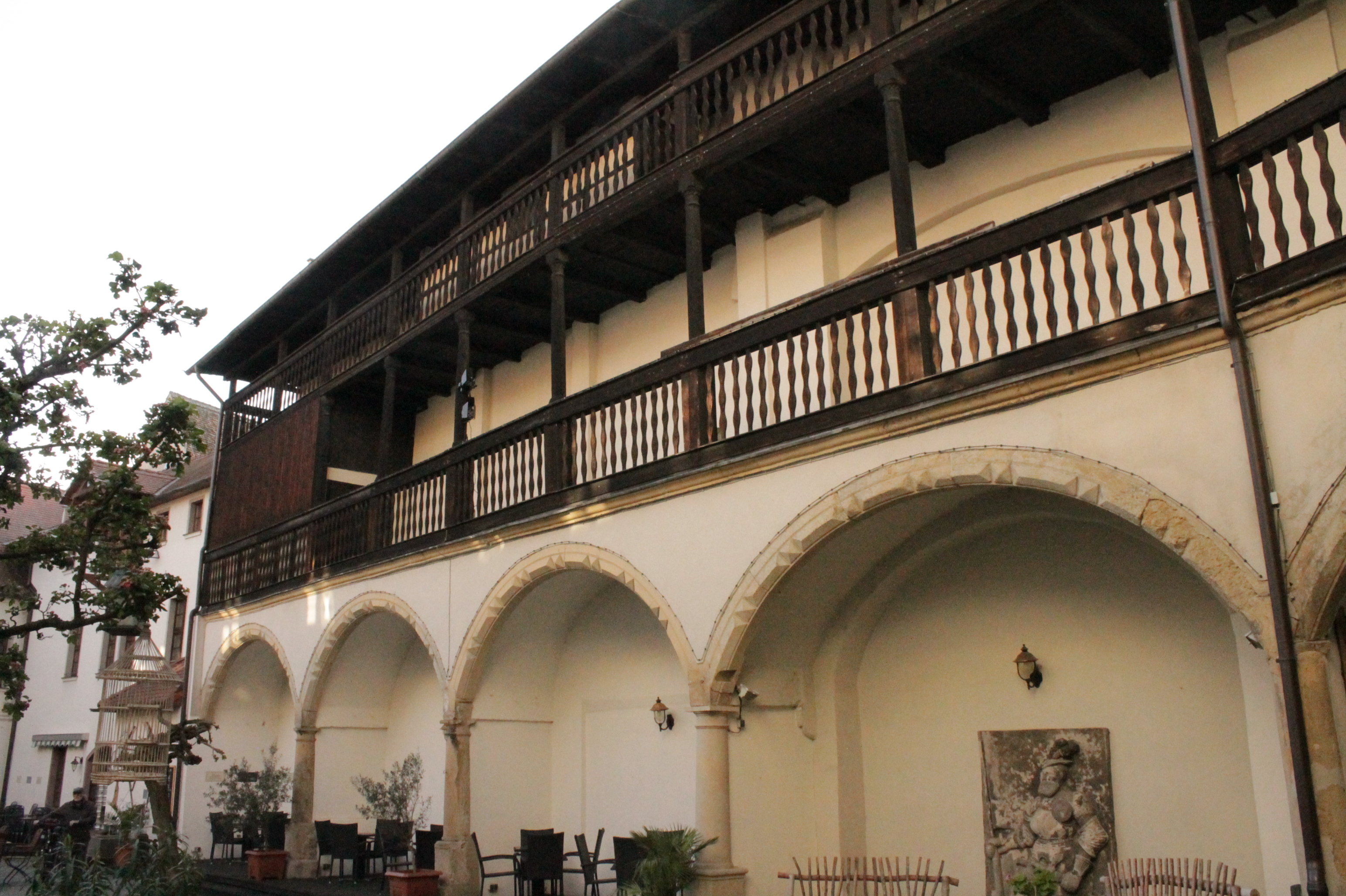 Christian Beyer's House, Wittenberg - view from rear - south